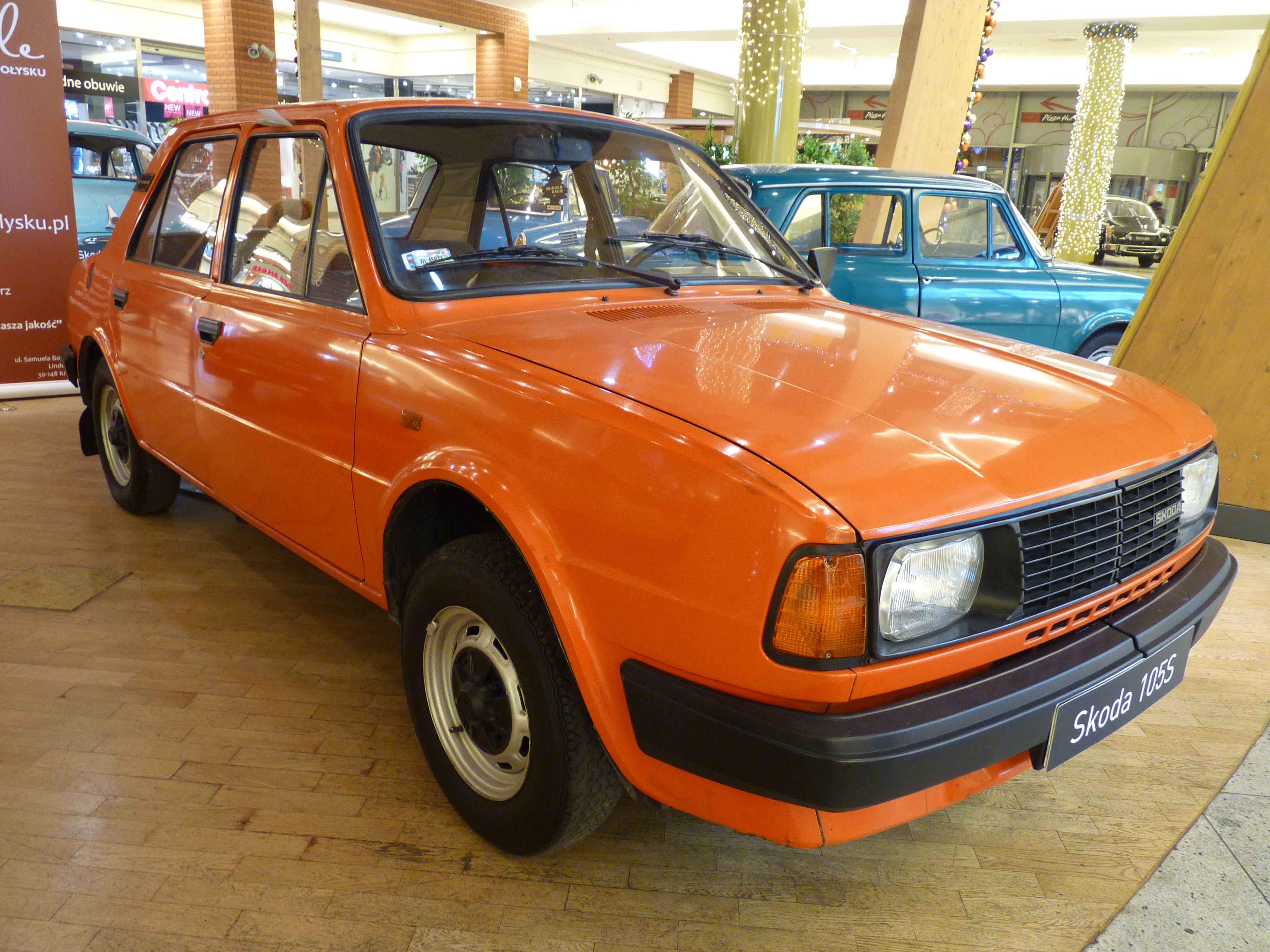 Škoda 105S during „XXX lat motoryzacji PRL” exhibition at Bonarka City Center in Kraków.JPG